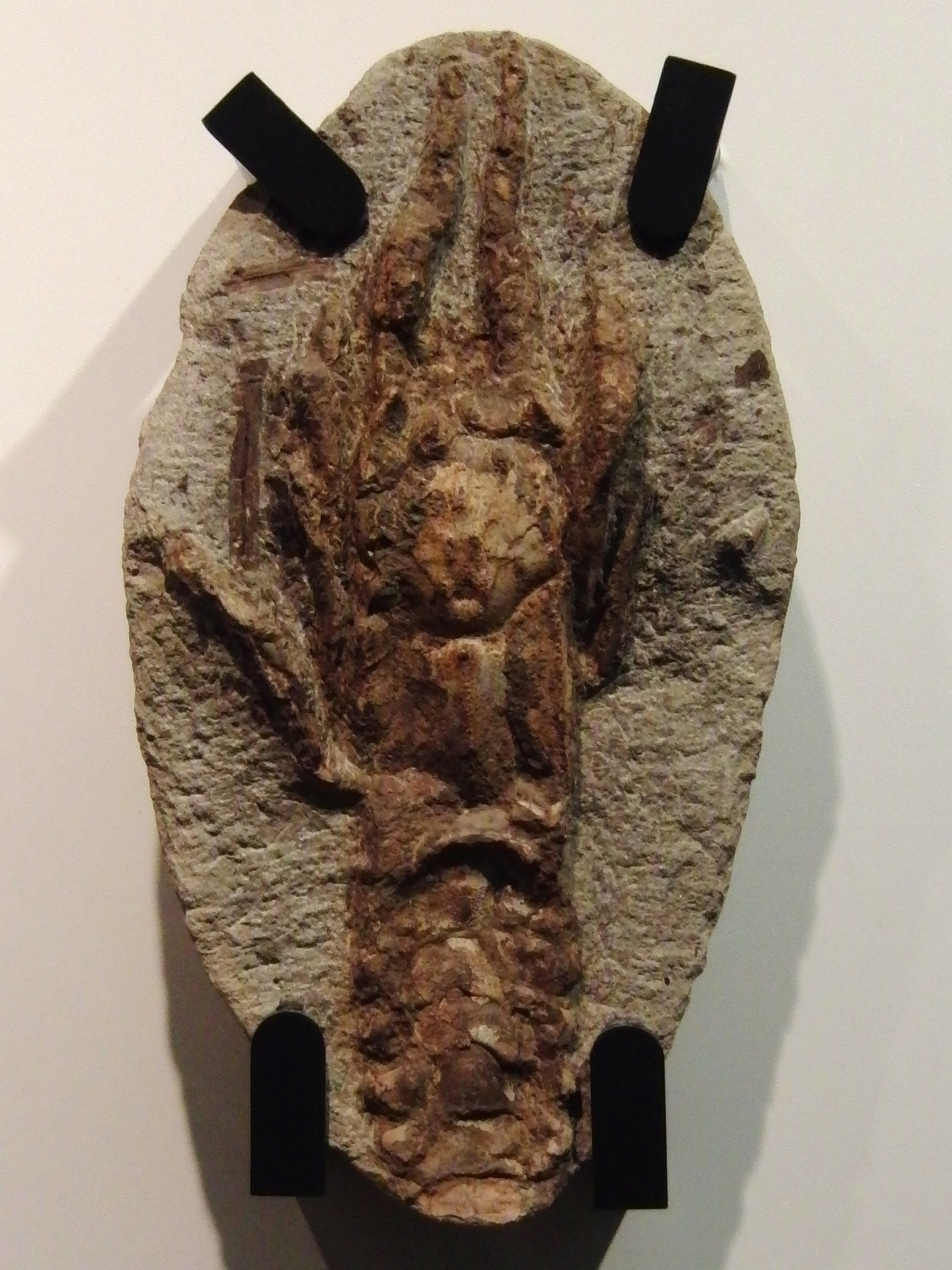 Fossil of Linuparus japonicus from Obira, Hokkaido, Japan. Late Cretaceous. Exhibit in the National Museum of Nature and Science, Tokyo, Japan.